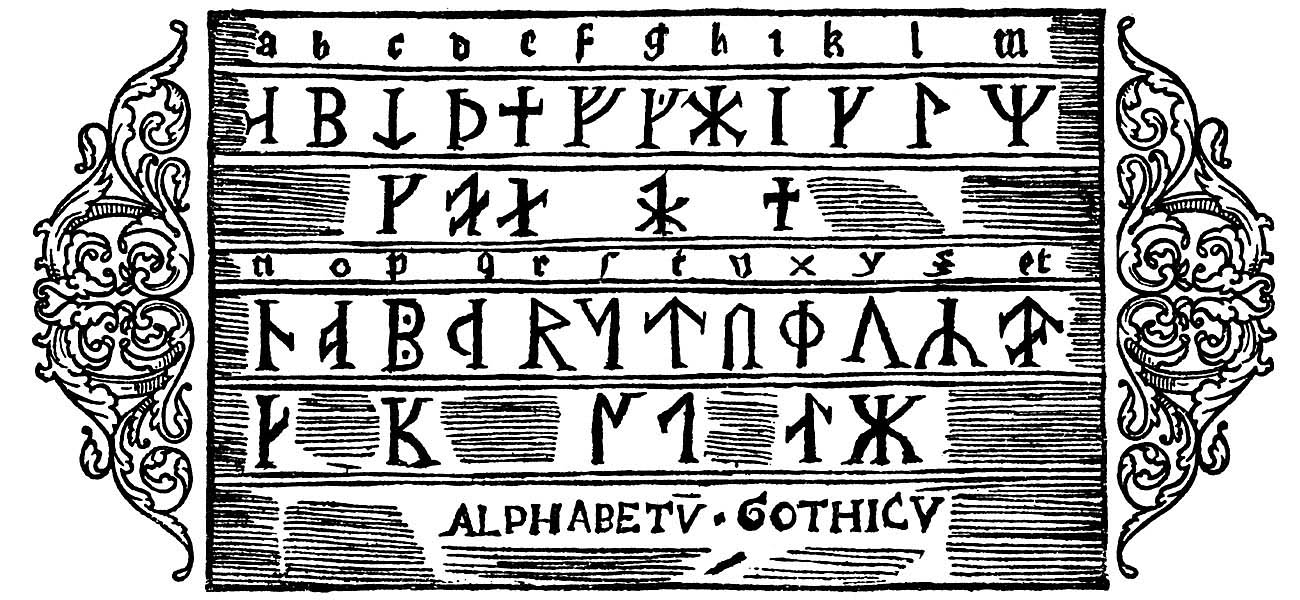 Olaus Magnus shows here the rune alphabet used in Sweden of the Geats and also of the Swedes. The author uses the designation “Alphabetum Gothicum”.